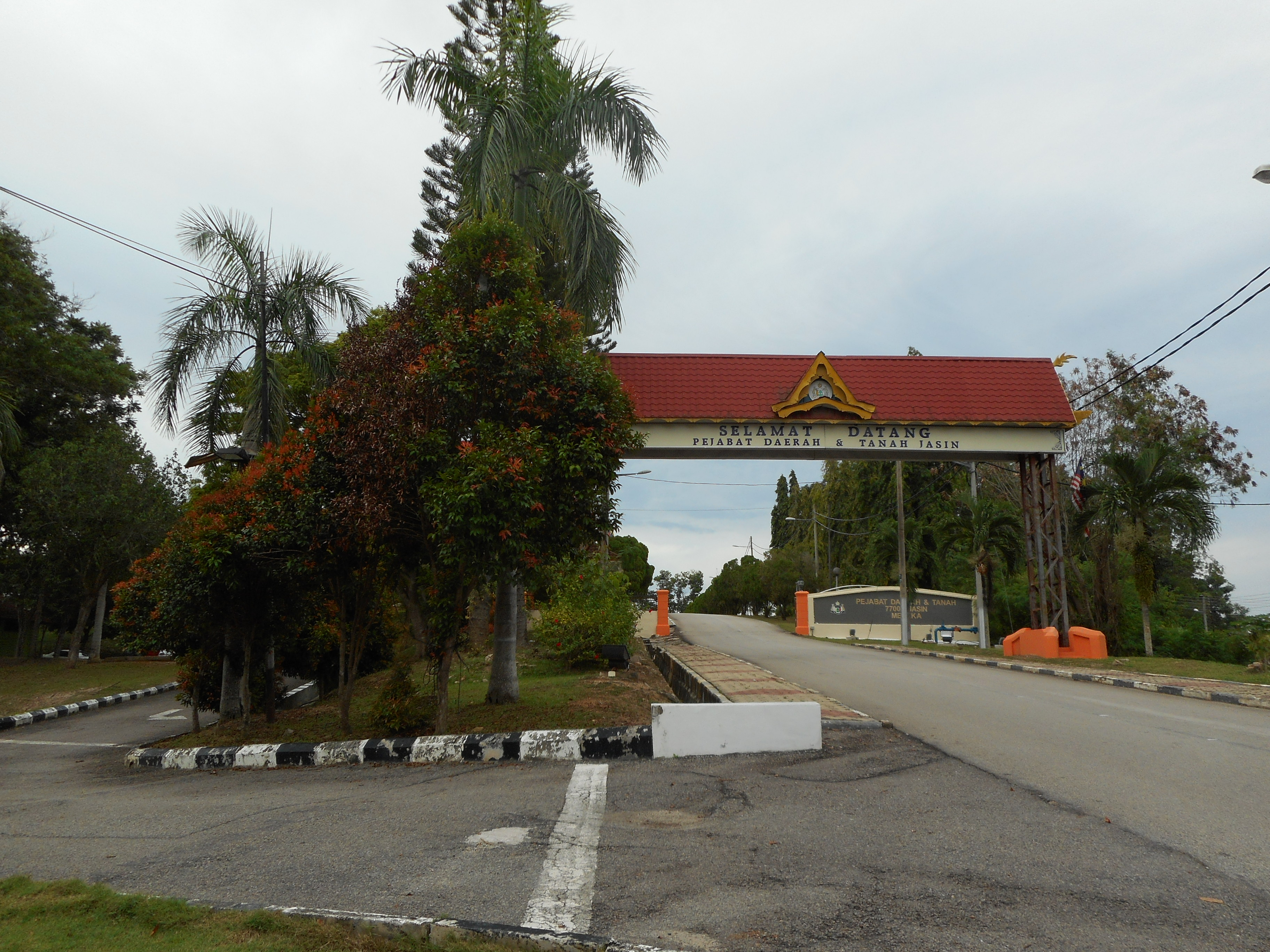 Jasin District and Land Office, Jasin, Melaka, Malaysia